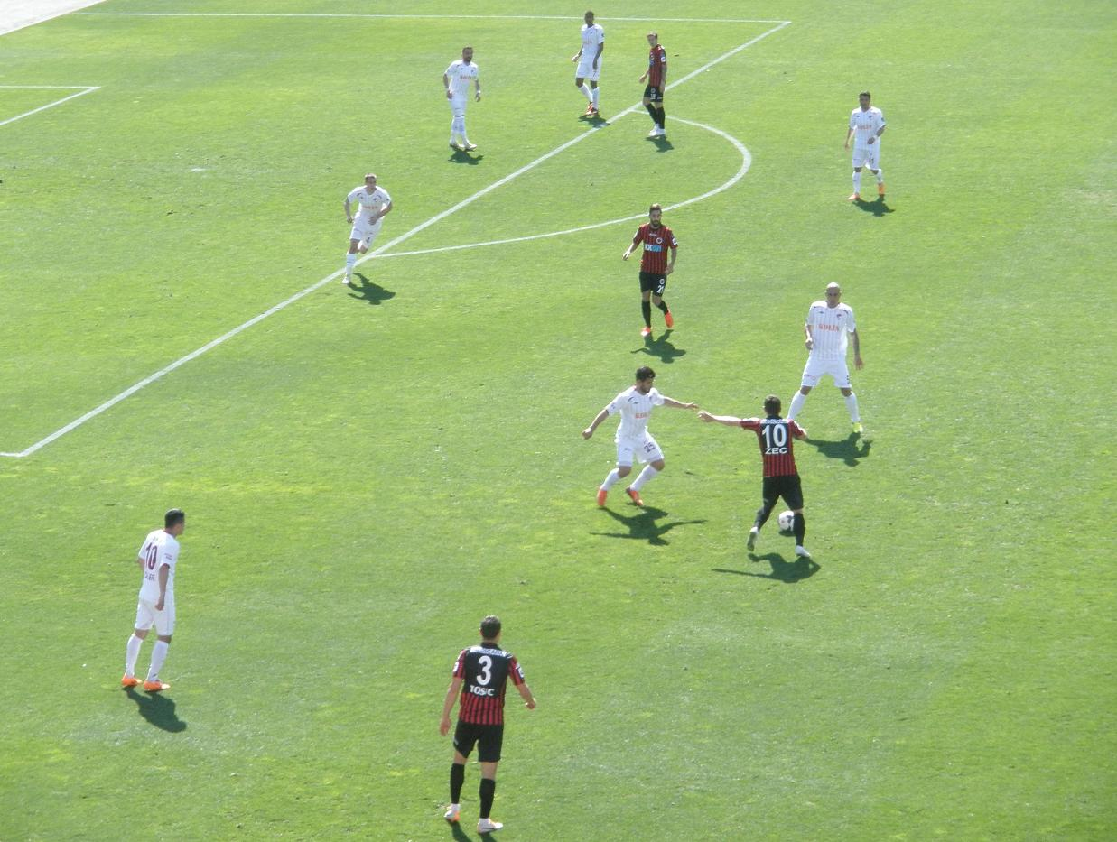 Turkish Super League match: Gençlerbirliği 3-1 Elazığspor